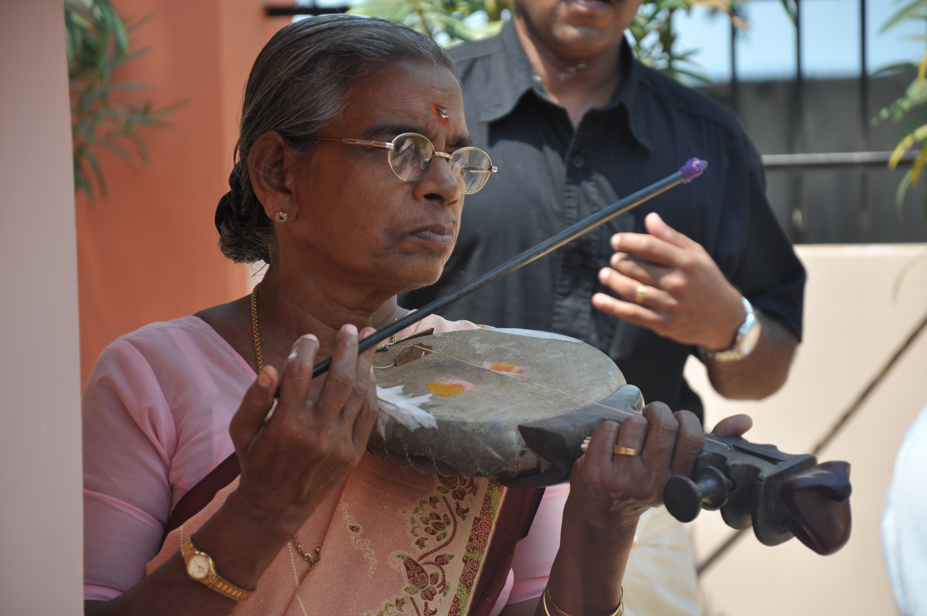 This media file is uploaded with India loves Wikipedia event. Pulluvan pattu in Ashtamudi temple